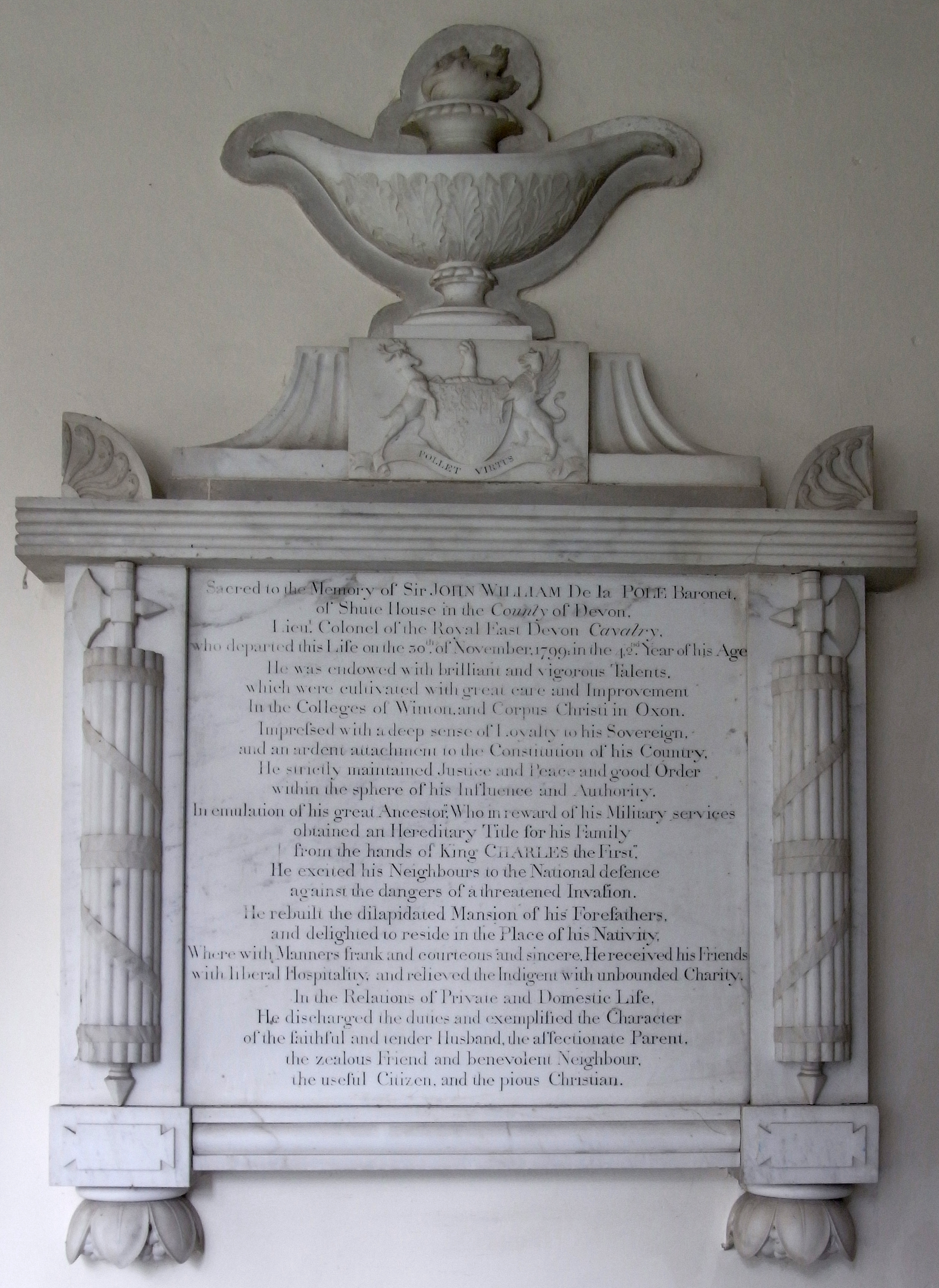 Mural monument in Shute Church, Devon to Sir John William de la Pole, 6th Baronet (1757-1799), west wall of south transept. Text: "Sacred to the memory of Sir John William de la Pole Baronet of Shute House in the county of Devon, Lieut. Colonel of the Royal East Devon Cavalry, who departed this life on the 30th November 1799 in the 42nd year of his age. He was endowed with brilliant and vigorous talents which were cultivated with great care and improvement in the colleges of Winton and Corpus Christi in Oxon. Impressed with a deep sense of loyalty for his sovereign and an ardent attachment to the constitution of his country he strictly maintained justice and peace and good order within the sphere of his influence and authority, in emulation of his great ancestor who in reward of his military services obtained an hereditary title for his family from the hands of King Charles the First. He excited his neighbours to the national defence against the dangers of a threatened invasion. He rebuilt the dilapidated mansion of his forefathers and delighted to reside in the place of his nativity where with manners frank and courteous and sincere he received his friends with liberal hospitality, and relieved the indigent with unbounded charity. In the relations of private and domestic life he discharged the duties and exemplified the character of a faithful and tender husband the affectionate parent, the zealous friend and benevolent neighbour, the useful citizen and the pious Christian".